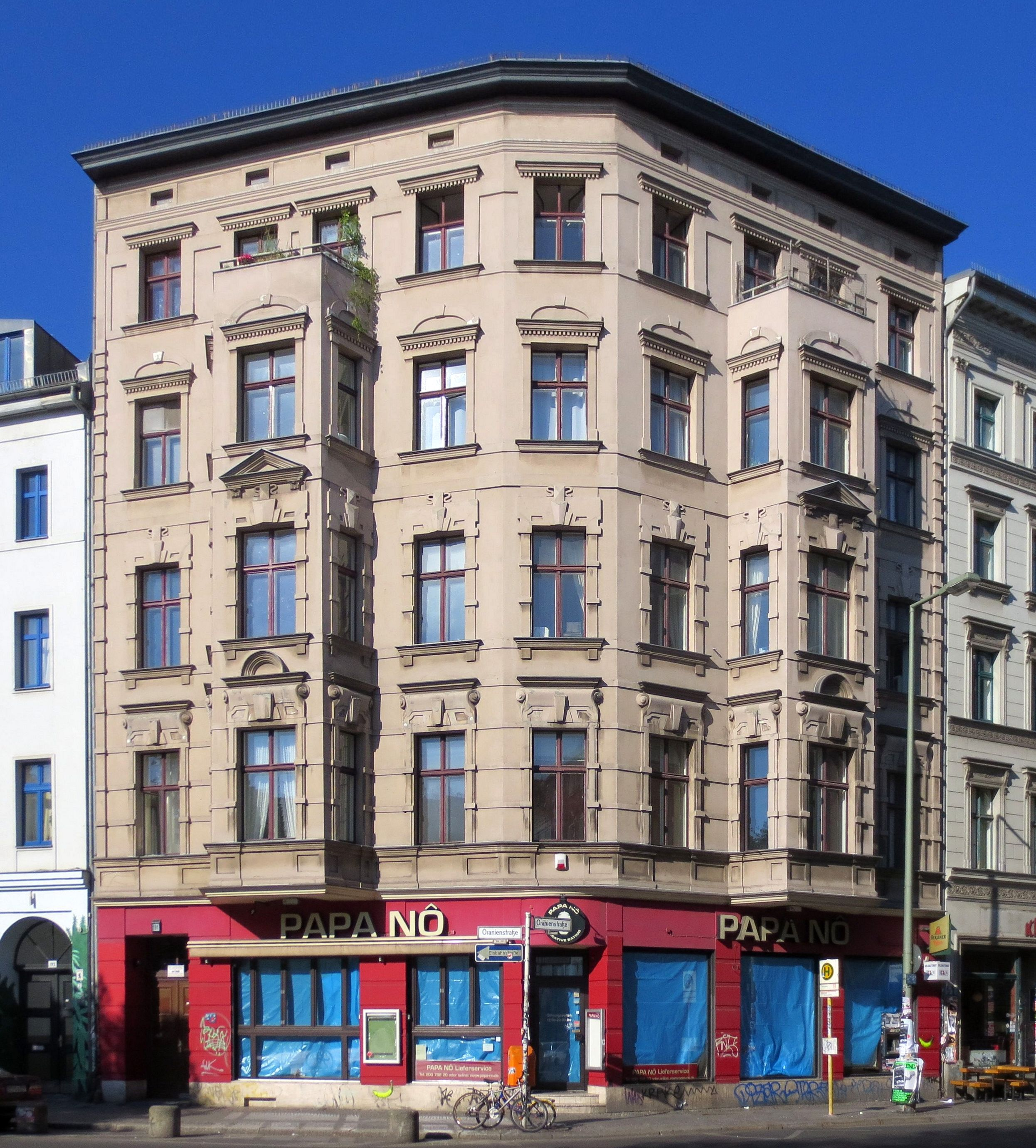 Residential building Oranienstraße No. 191, corner of Heinrichplatz (on the left), in Berlin-Kreuzberg. The house was built in 1888 by Otto Sohre. It is part of the protected historic buildings area Oranienstraße.